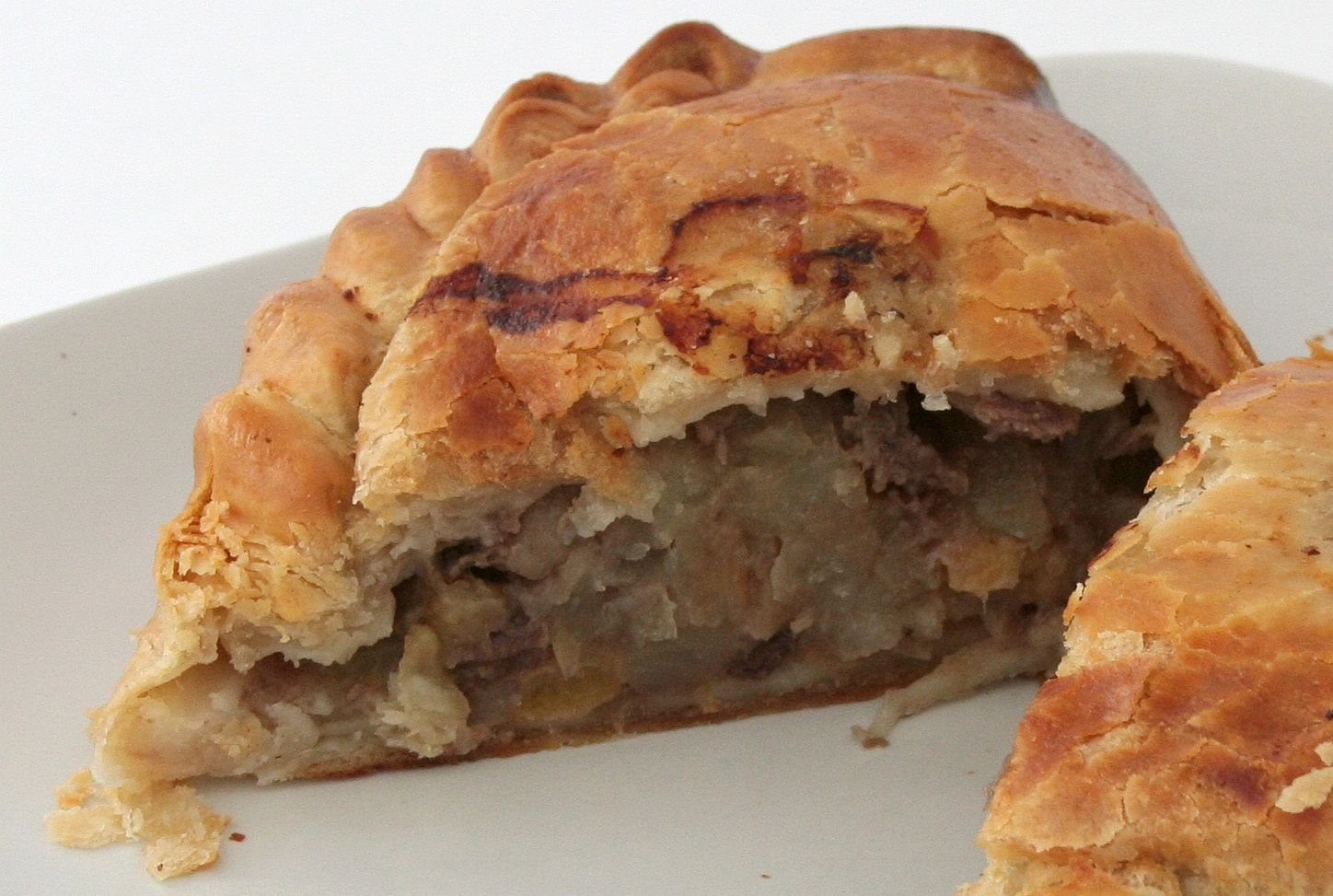 A Cornish pasty made by Warrens cut in half. The filling is beef steak, potato, turnip and onion.